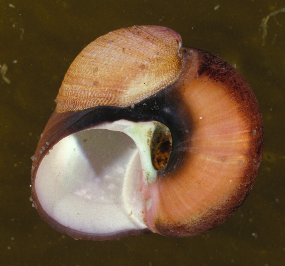 Empty shell of Norrisia norrisi taken at UCSC Long Marine Lab, and with the slipper shell Garnotia norrisiarum on it.